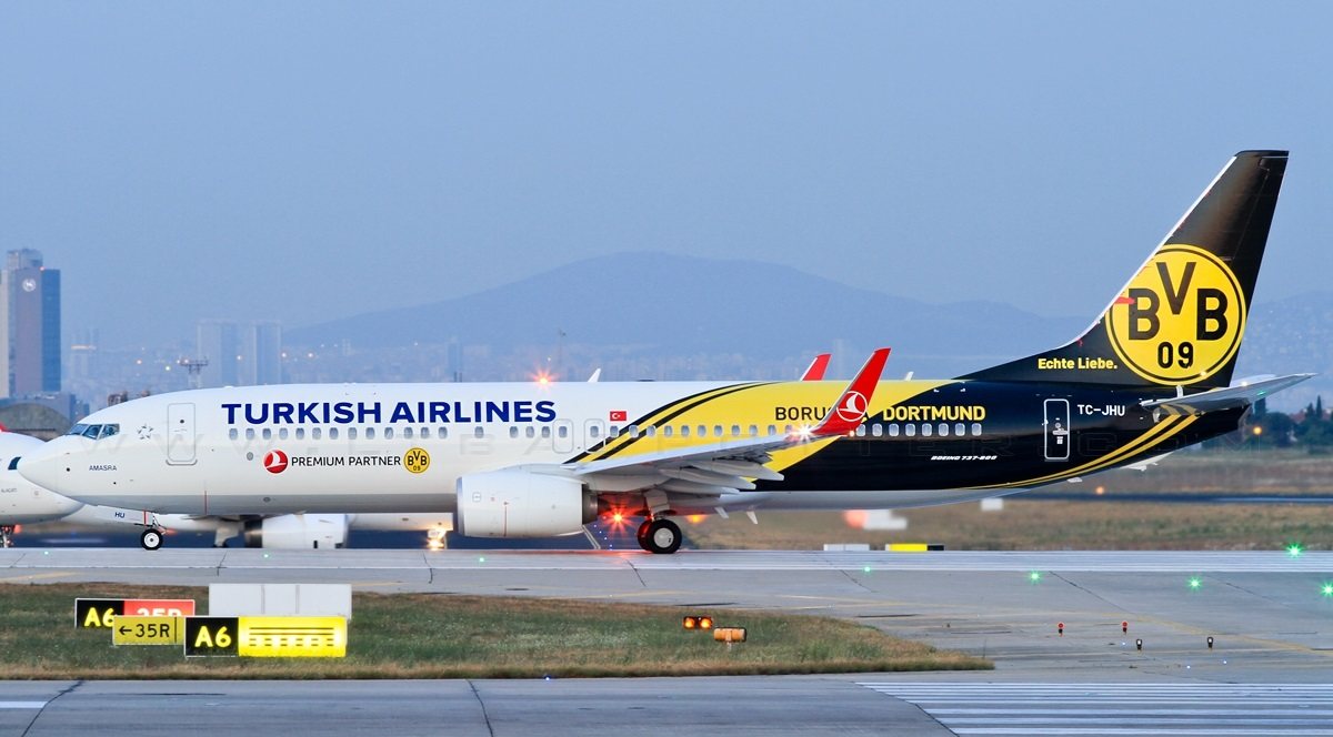 A Turkish Airlnes TC-JHU Boeing 737 in a Borussia Dortmund vinyl.